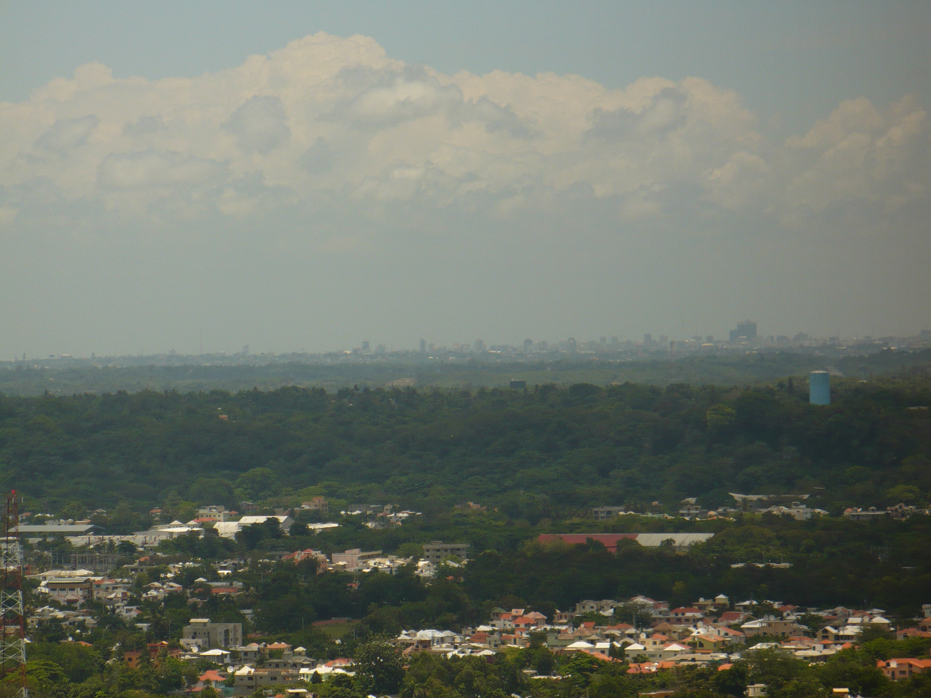 Esta es una imagen que presenta en primer plano la ciudad de San Cristobal y en segundo plano la ciudad de Santo Domingo.